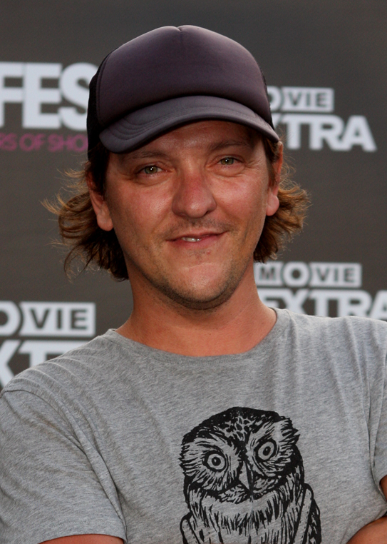 Tropfest Opens In Sydney, Australia